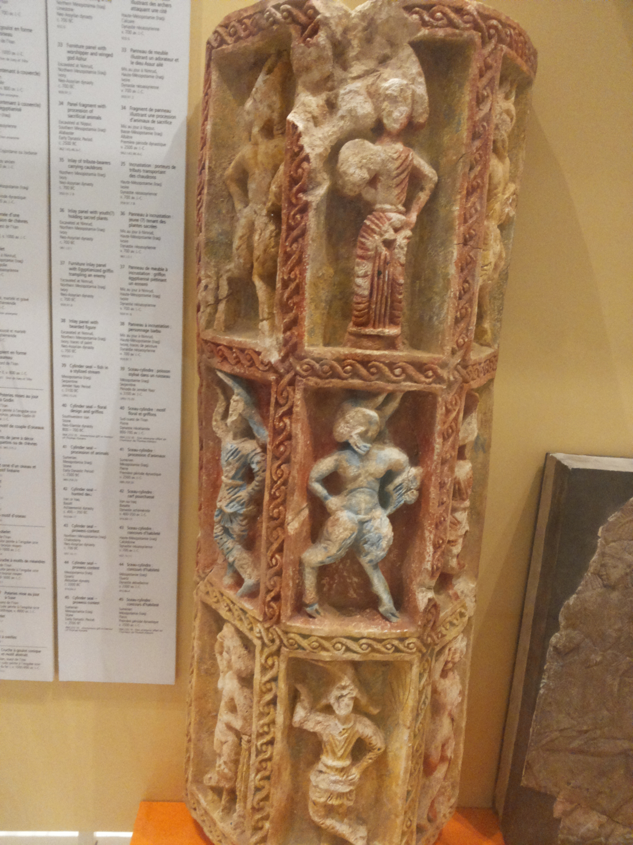 A column of Qelay Yezdgird, Royal Ontario Museum